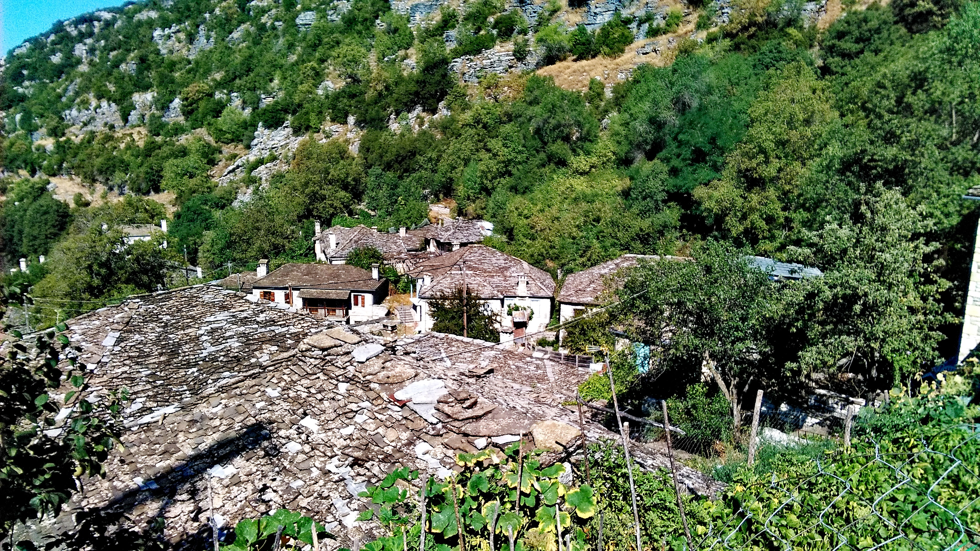 This is a photography of Natura 2000 protected area with ID GR2130004